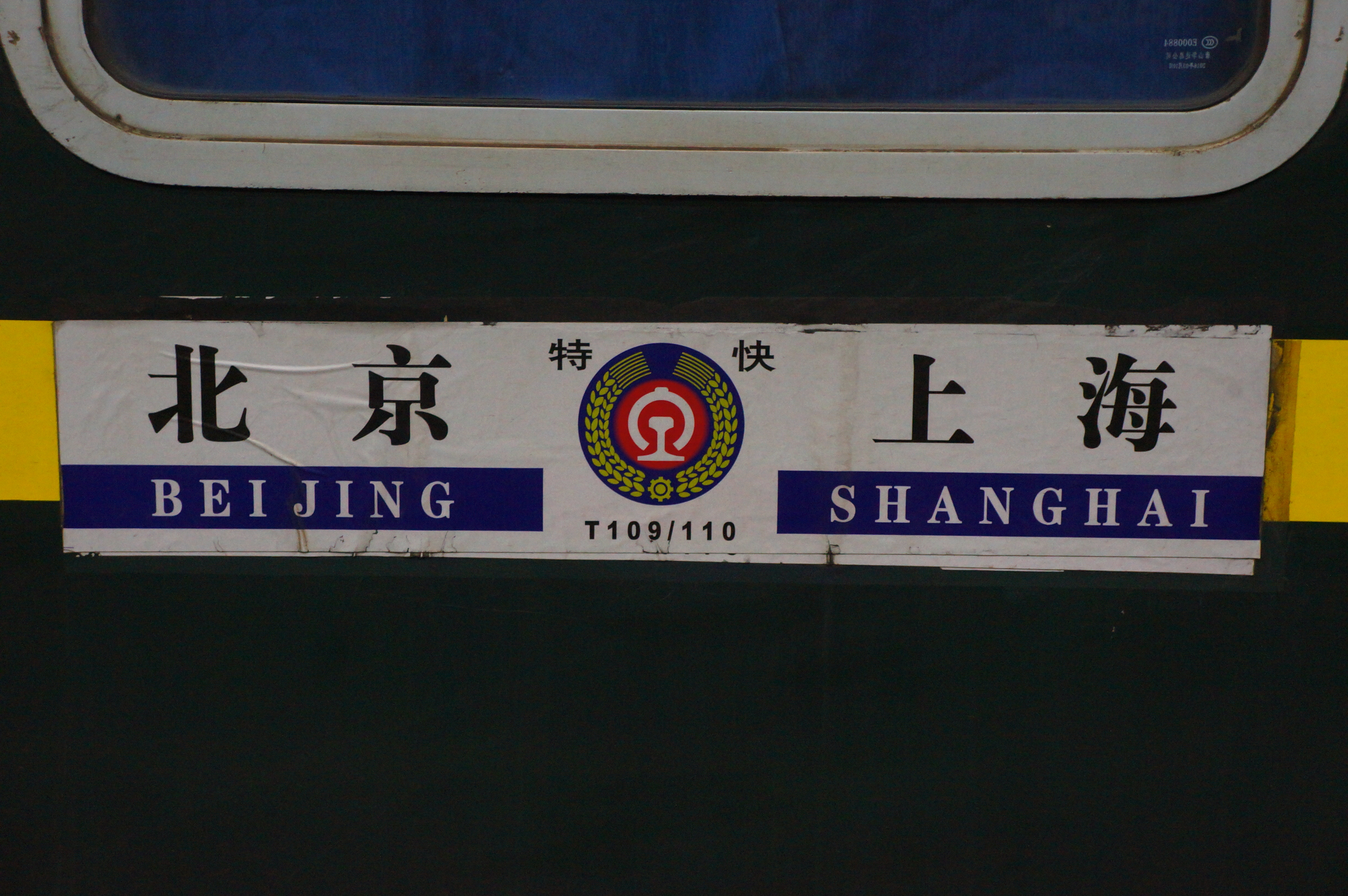 T110 infoboard in 201812, the only T/Z train to Yangtze River Delta (Southern Bank) survived after the schedule adjustment occurring Jan 5, 2019.